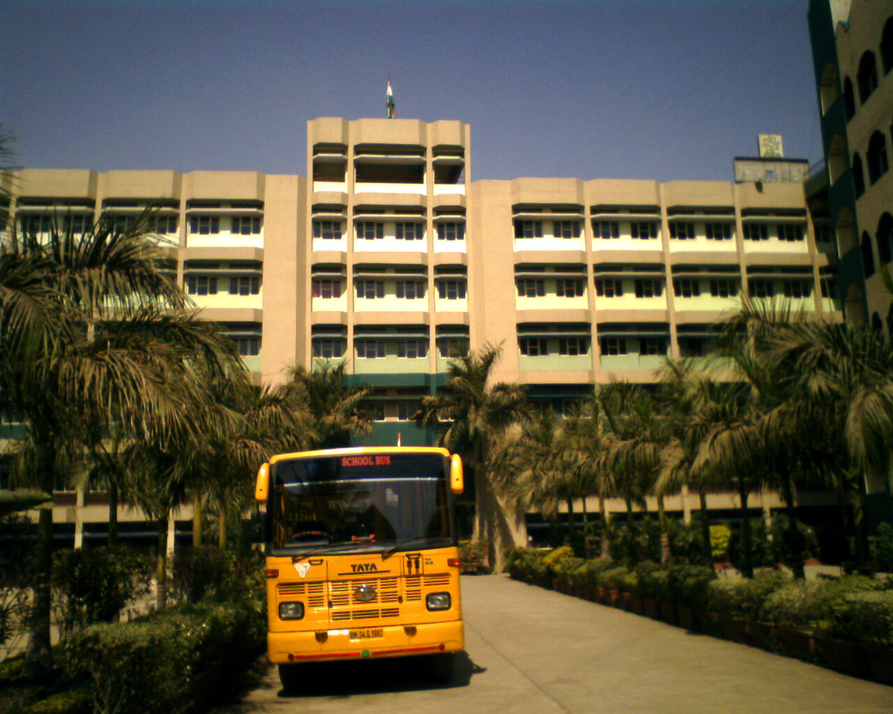 Picture of Royal College's Building